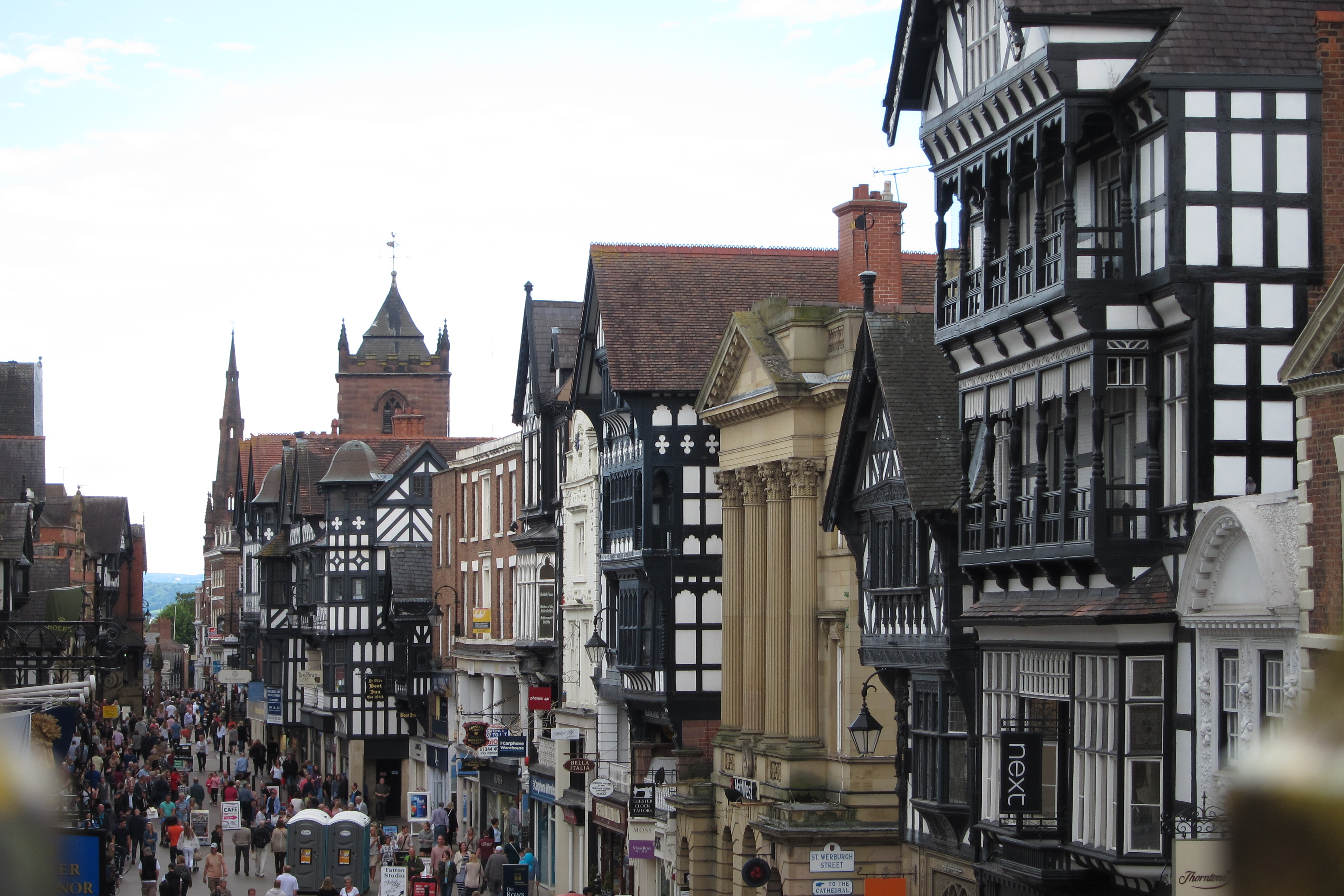 View of the old houses that lines Eastgate Street